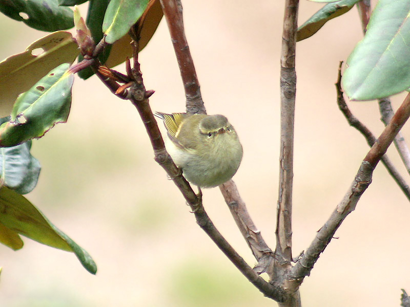 Hume's Warbler Phylloscopus humei in Kullu District of Himachal Pradesh, India.